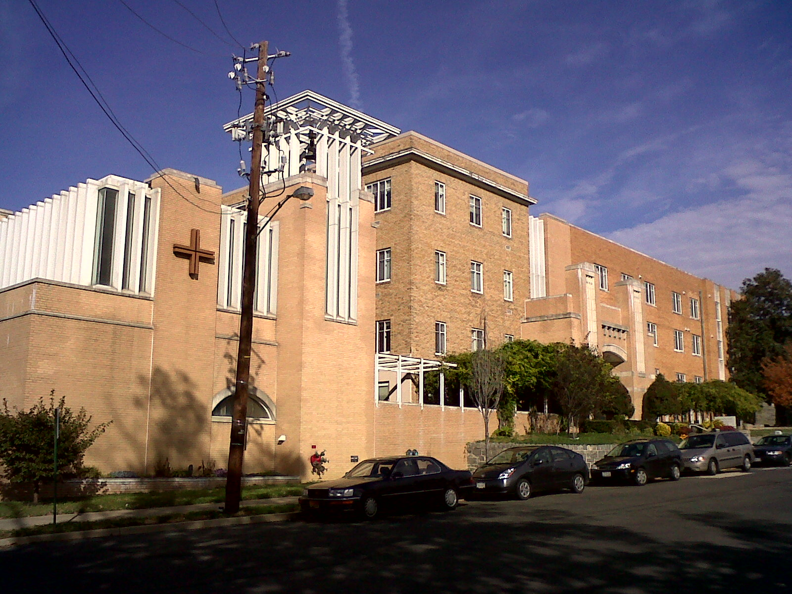 Washington Theological Union is located in Takoma Park, Washington, DC.